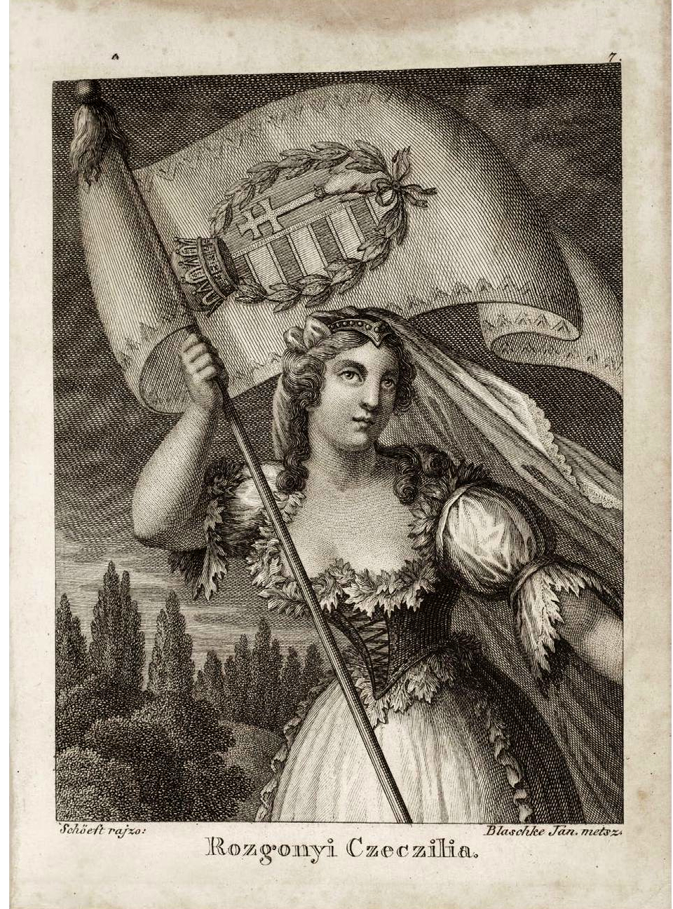 Rozgonyiné Szentgyörgyi Cecília, Szentgyörgyi Péter leánya Arany János Rozgonyiné című balladájában emlékezett meg